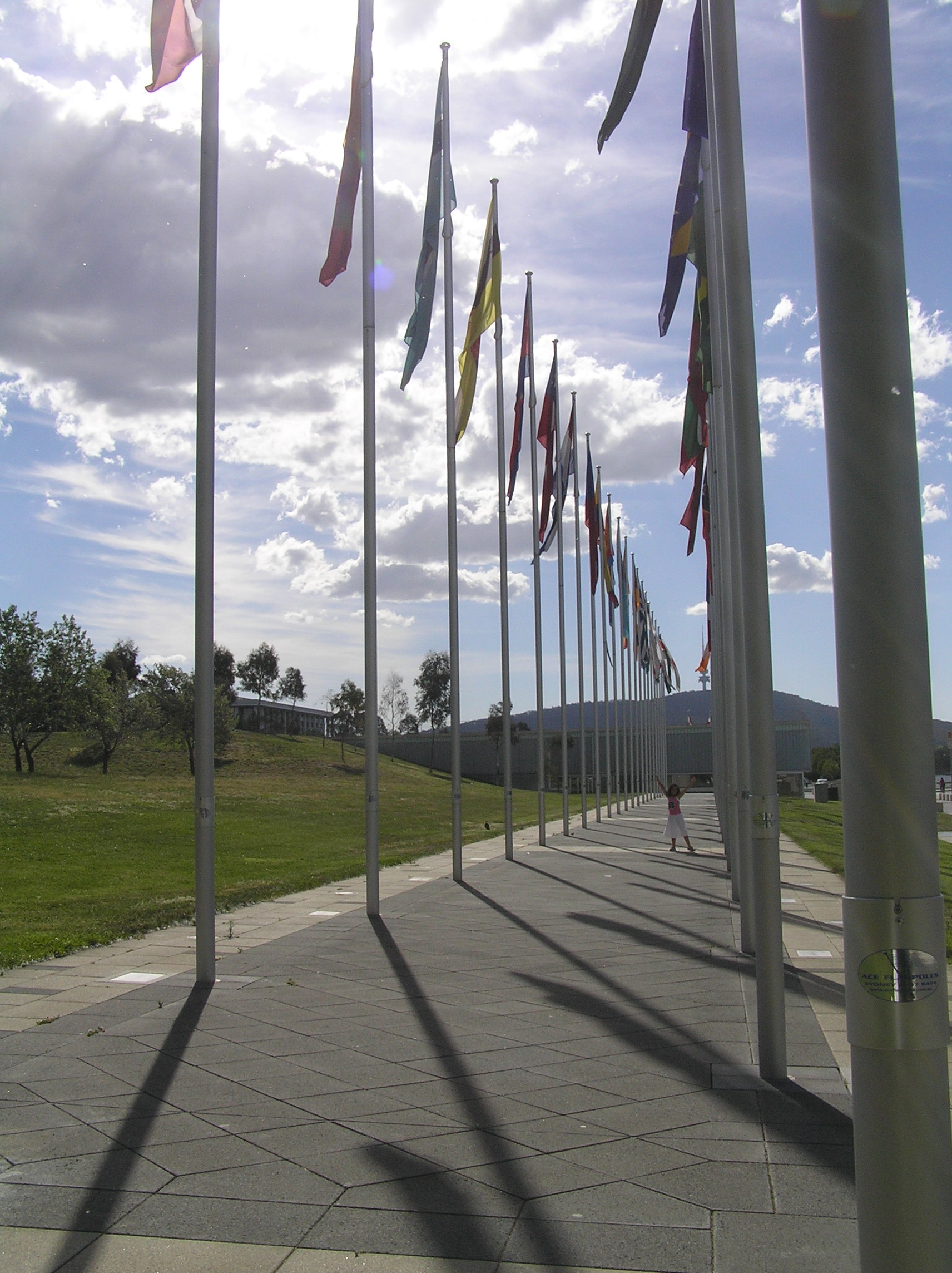 Commonwealth Place international flag display